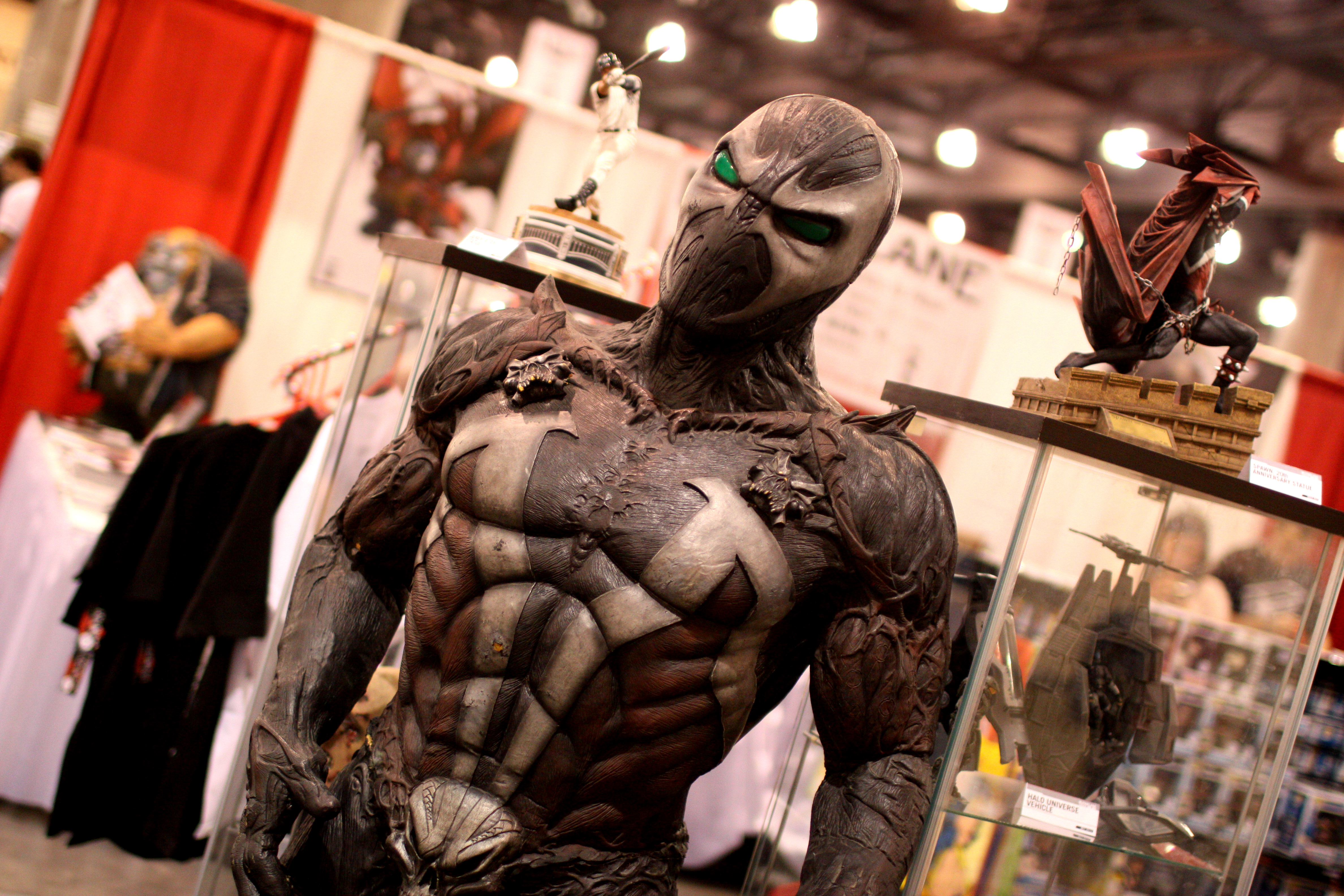 Spawn statue at the 2012 Phoenix Comicon in Phoenix, Arizona.